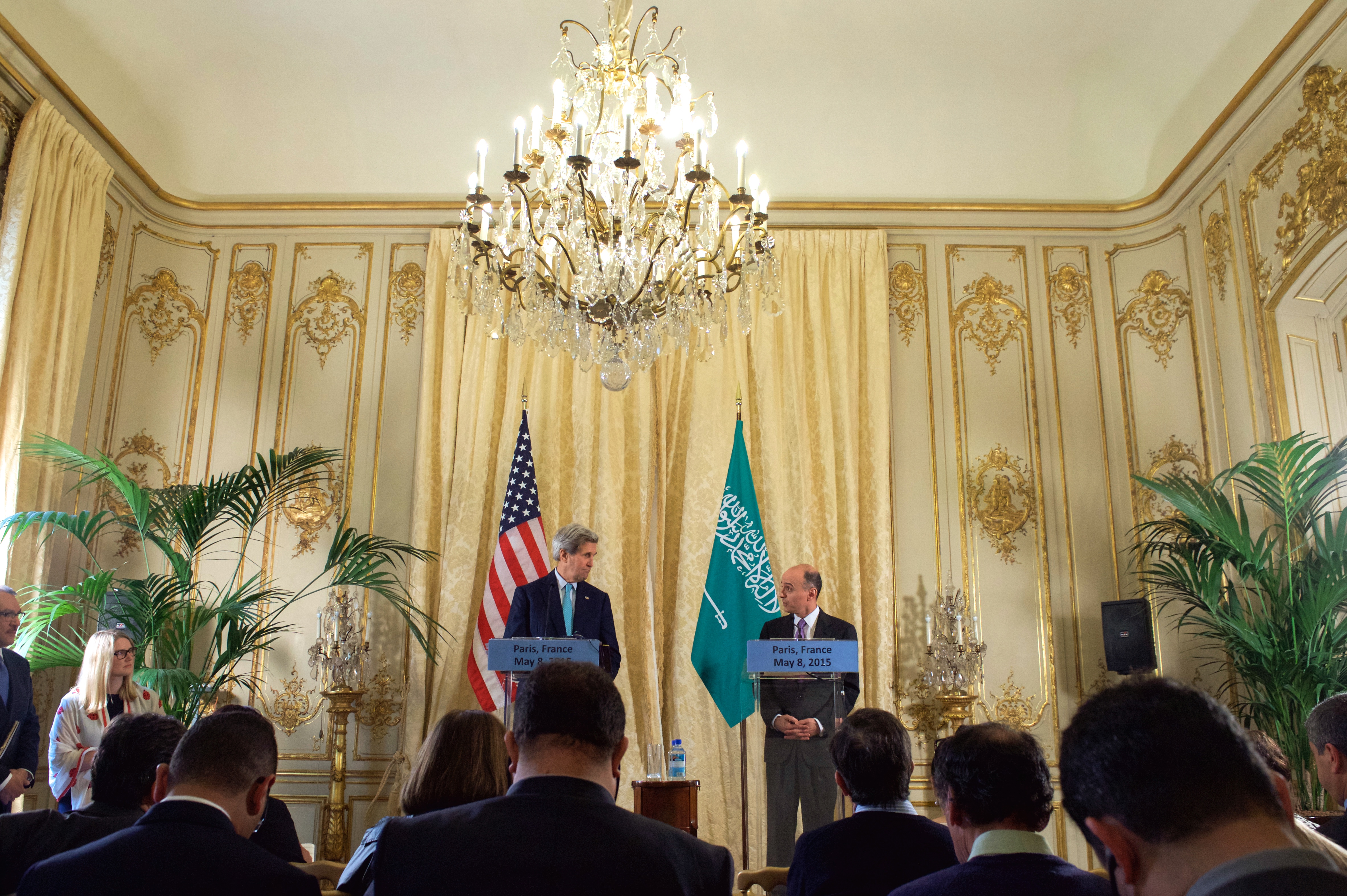 U.S. Secretary of State John Kerry listens as Saudi Foreign Minister Adel al-Jubeir announces that a cease fire in Yemen will begin Tuesday, following a meeting of the Gulf Cooperation Council on May 8, 2015, in Paris, France. [State Department photo/ Public Domain]